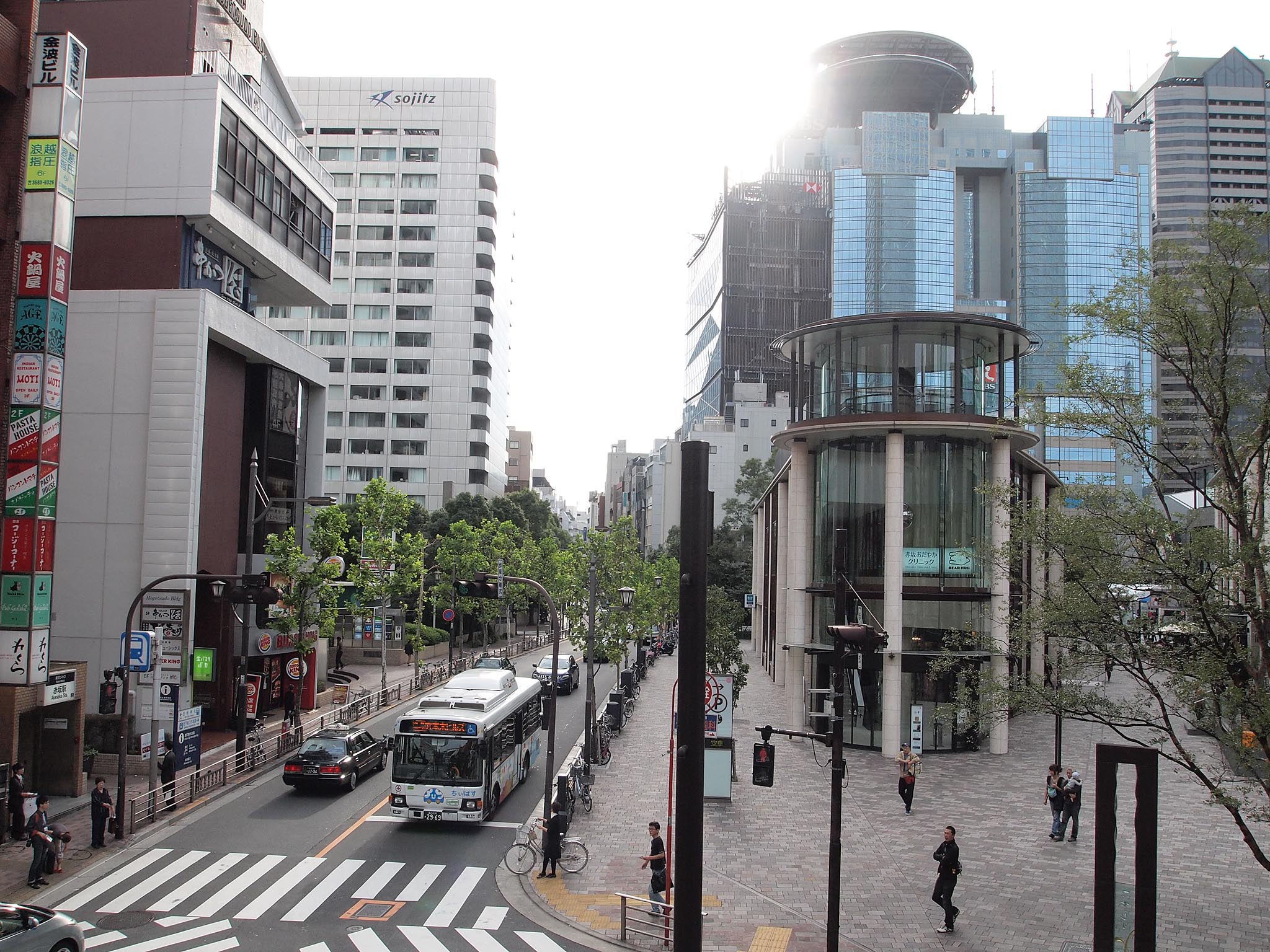 Chii Bus "Akasaka Route" through neighbour of TBS Akasaka Sacas.